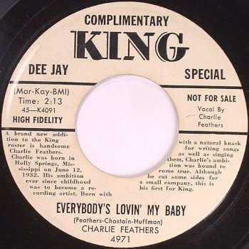 A record of Everybody's Lovin' my Baby by Charlie Feathers